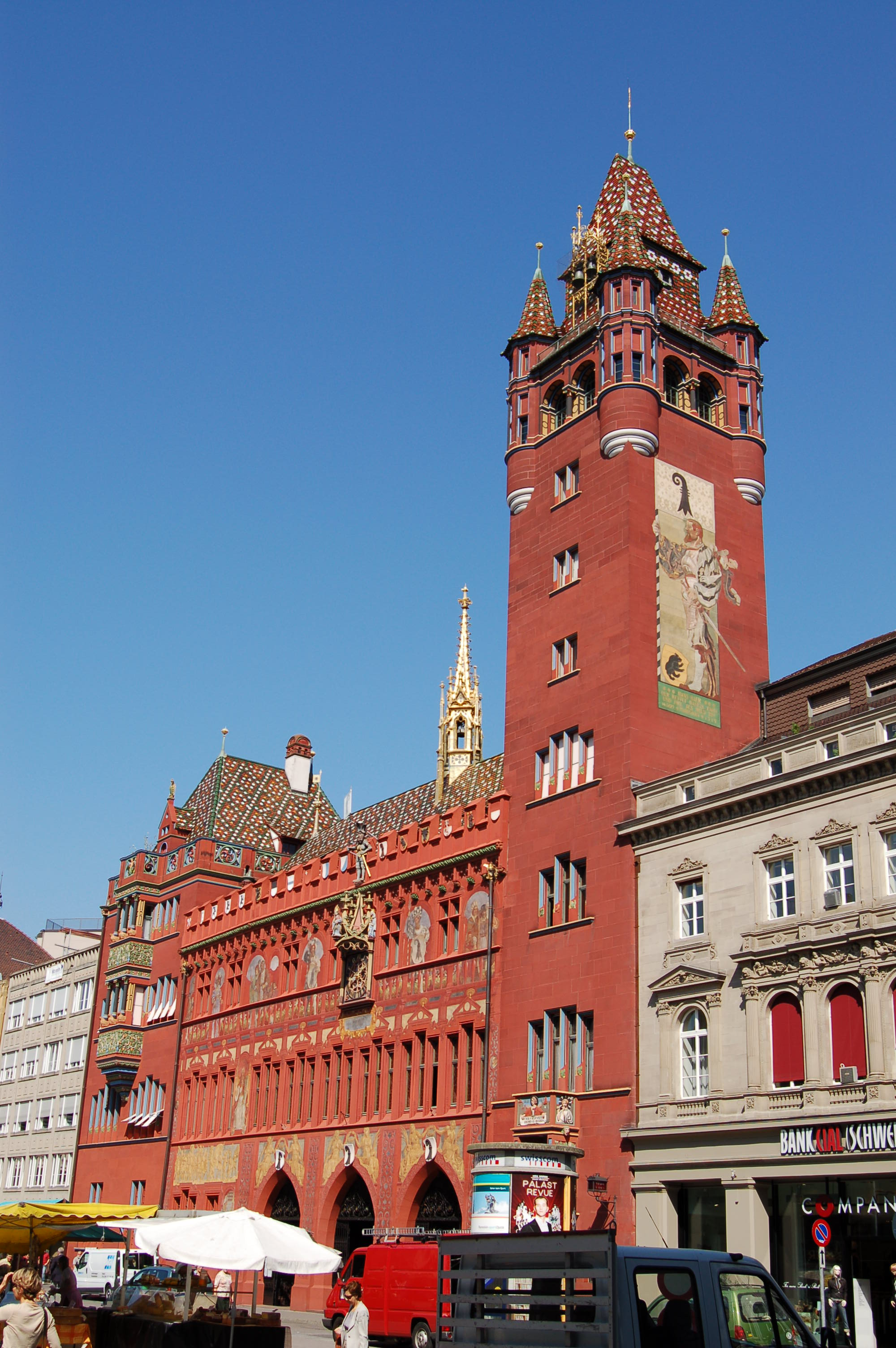 Cityhall of Basel, Switzerland